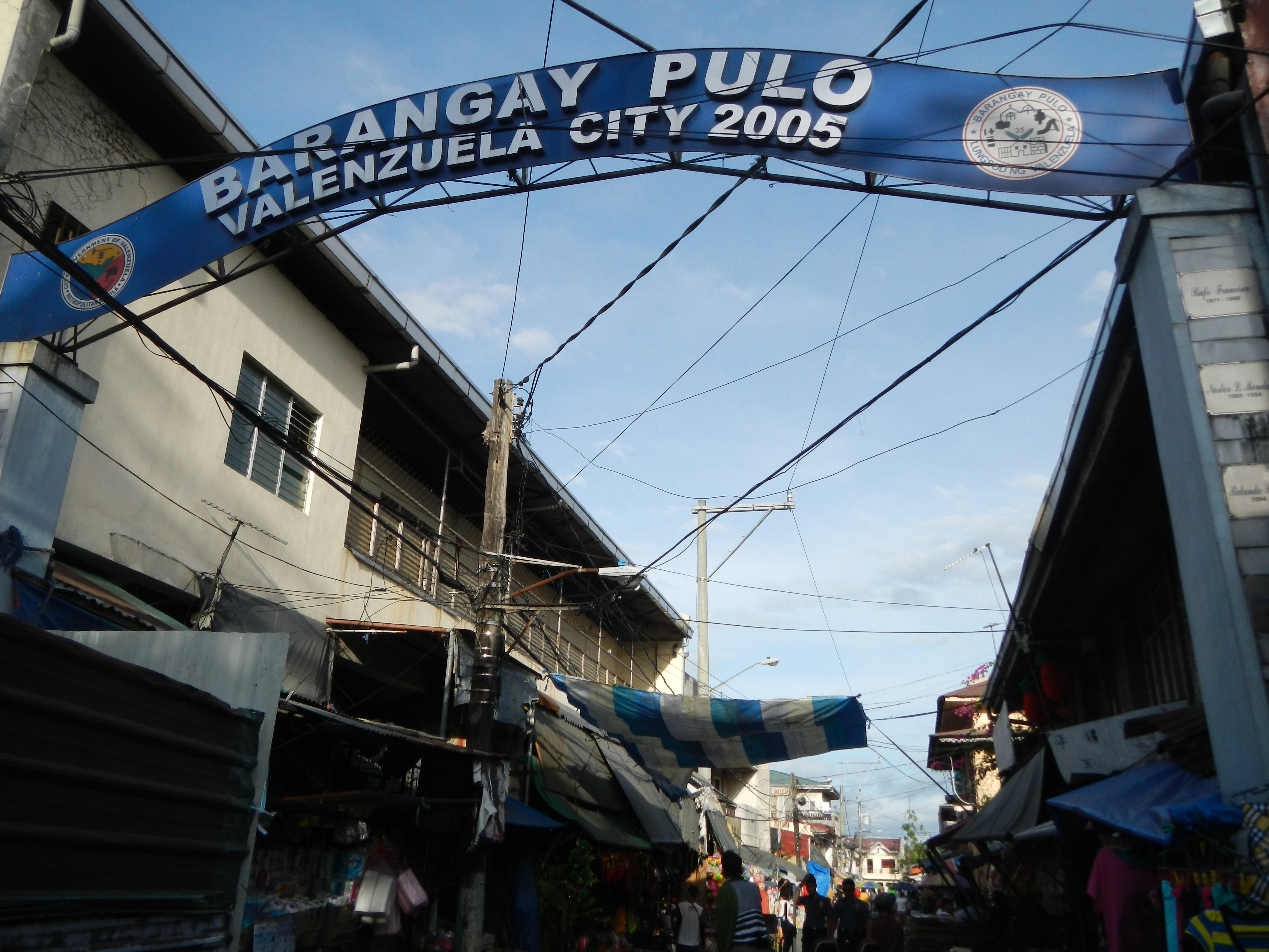 Upload Wizard photos of - Valenzuela, Philippines [1] Philippines - Barangay Poblacion and Polo, Valenzuela[2], the covered courts, school, memorial for fallen heroes, Polo National High School Polo Welcome arch.